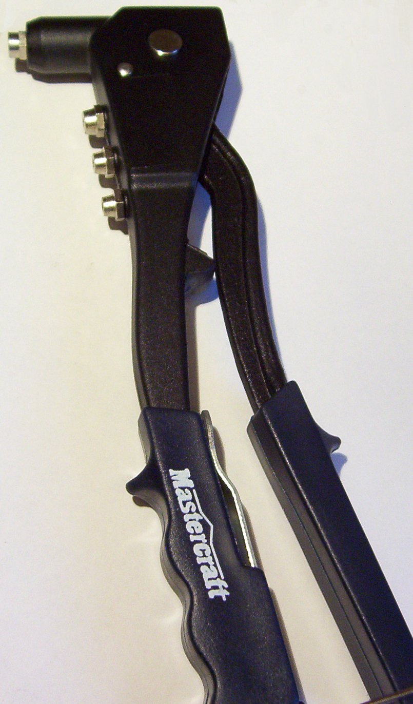 Blind rivet tool